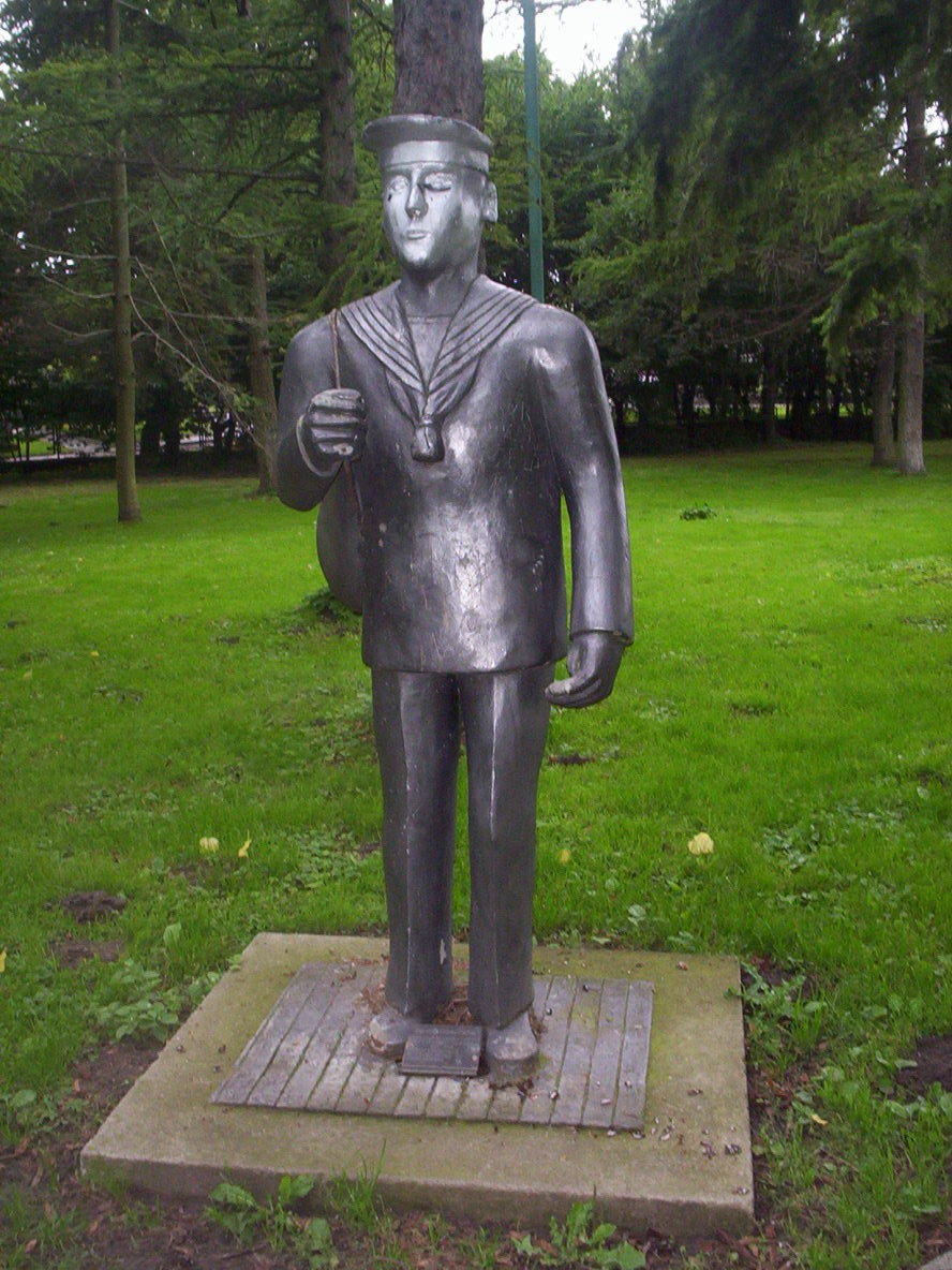 Monument of the Sailor in front of the Marine School in Darłowo.